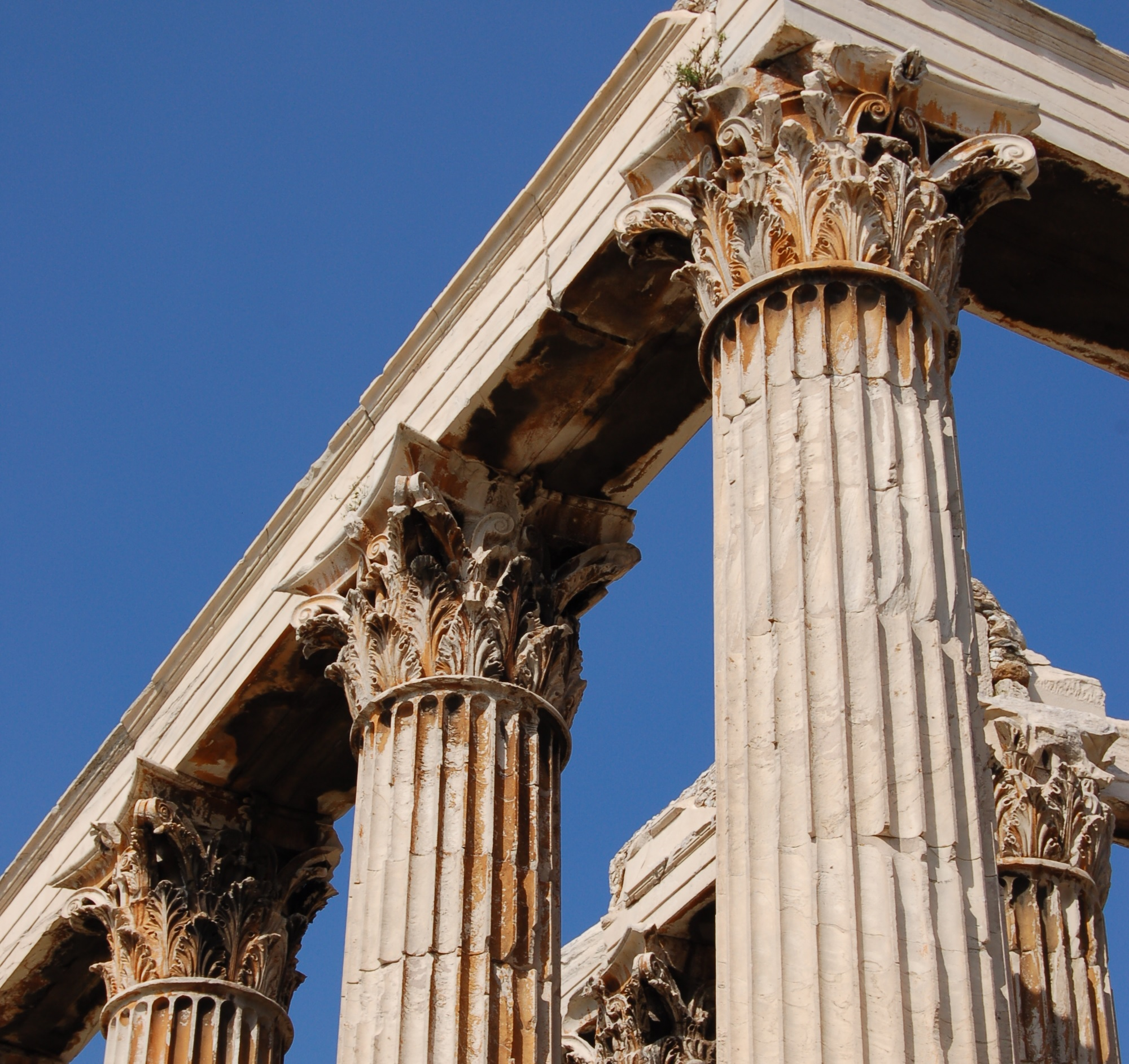 Photograph of the Temple of Olympian Zeus in Athens showing detail of the corinthian columns' capitals.